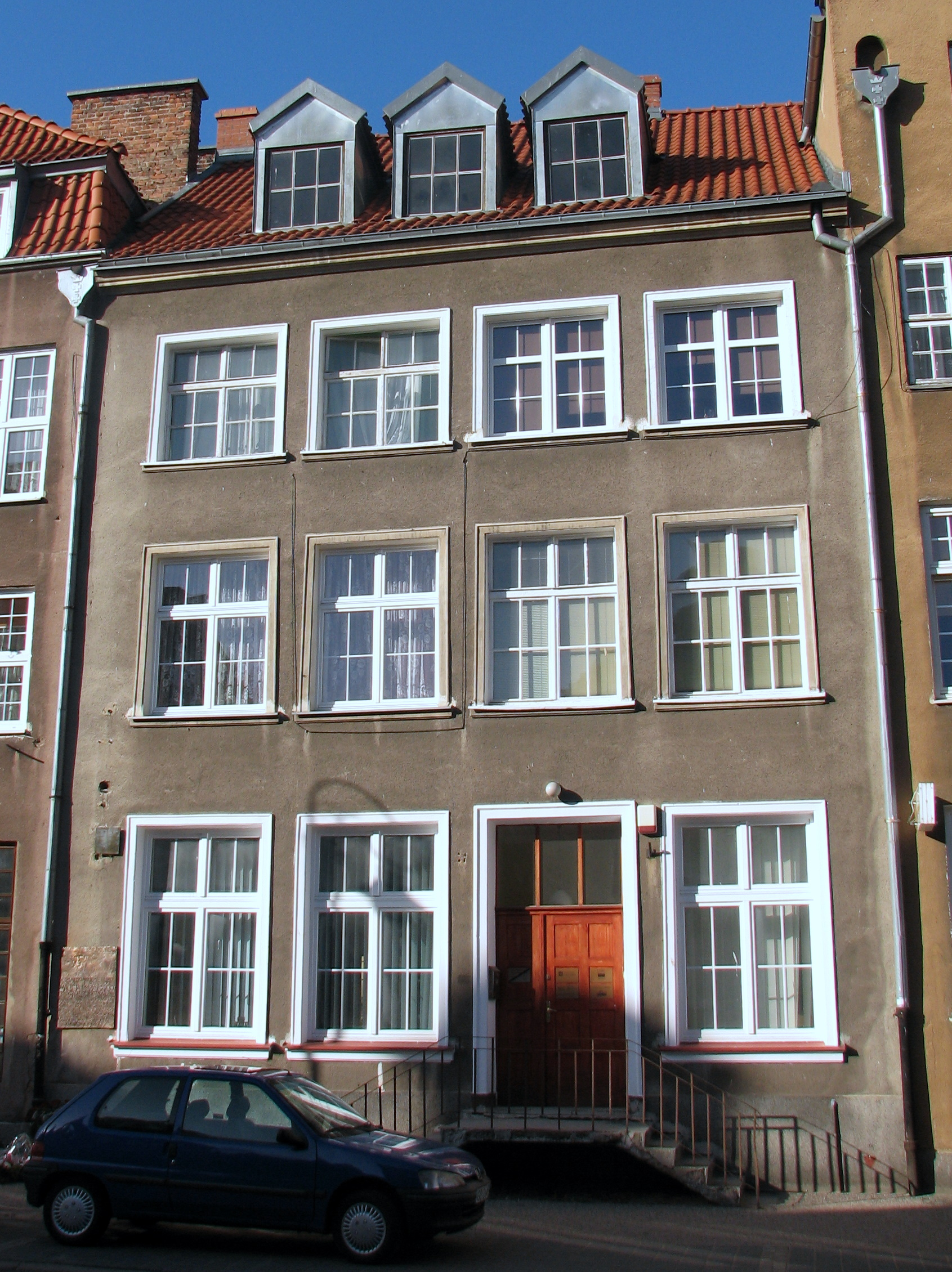 Former office of Maciej Płażyński in Gdańsk. Political opinion of uploader is secret.